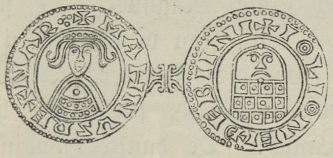 Coin of Magnus the Good minted in Denmark.